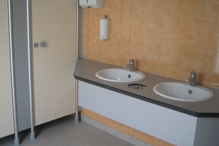 zarizeni sanitarni kontejner